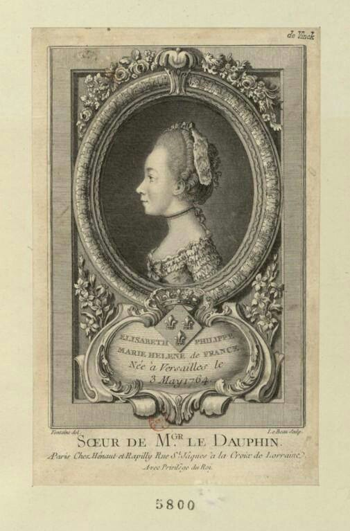 Portrait of Elizabeth of France, bust, in profile on the left, in an oval border garlanded with flowers at its upper part and resting on a cartouche with arms, cantoned with lilies; all in a rectangular frame